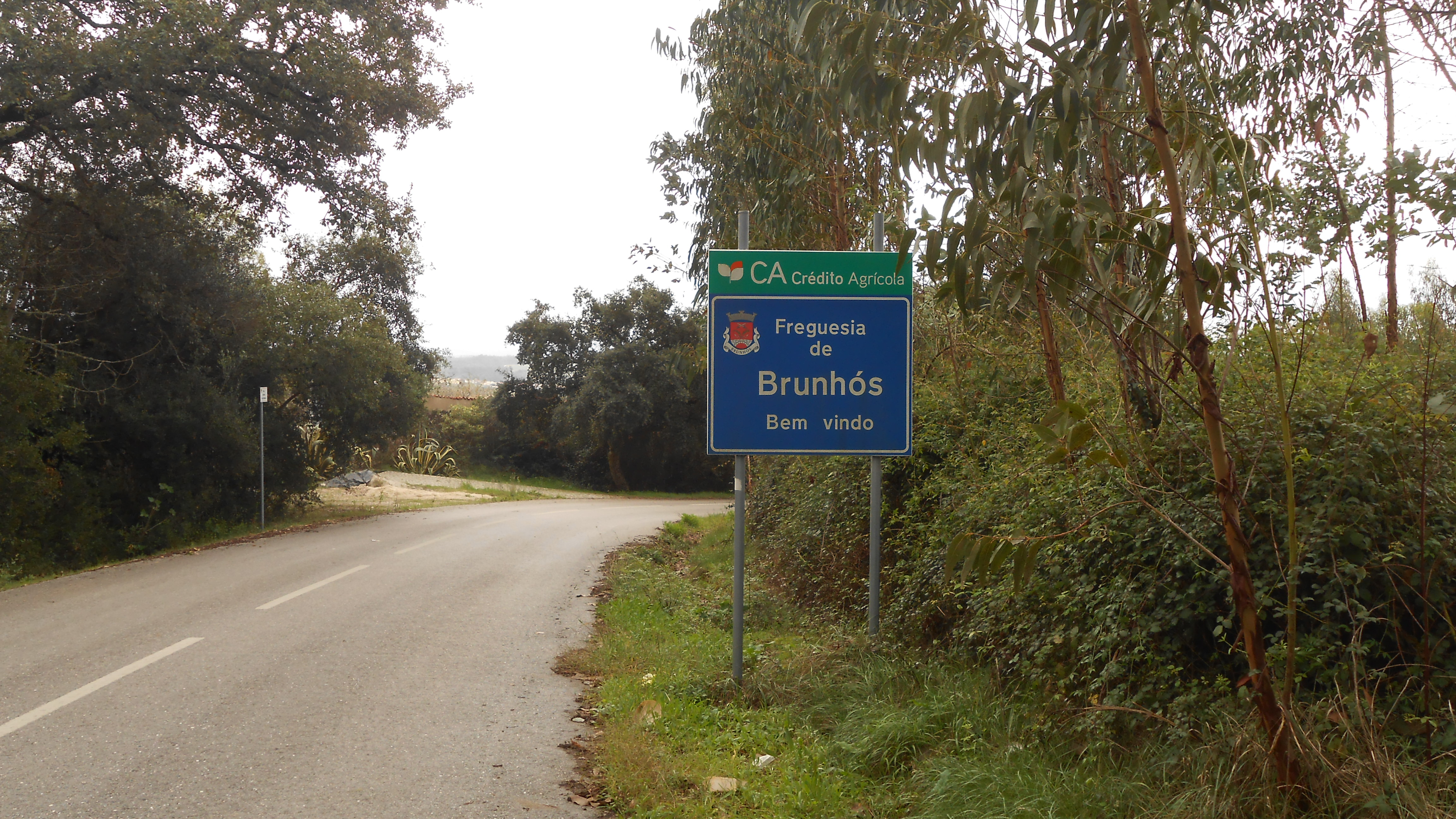 Entry sign of the parish (freguesia) of Bunhós, municipality (concelho) of Soure, district of Coimbra, Portugal.